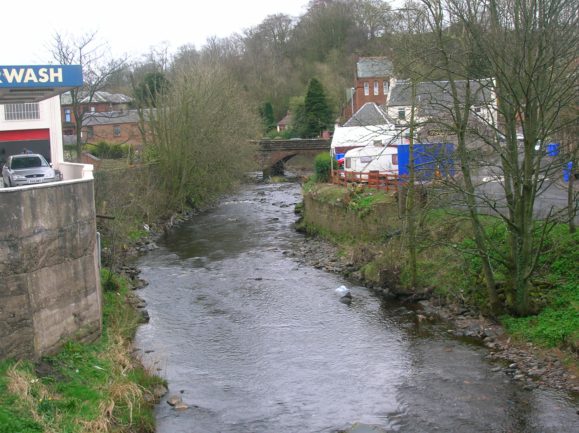 The River Irvine at Newmilns, East Ayrshire, Scotland. 2007.